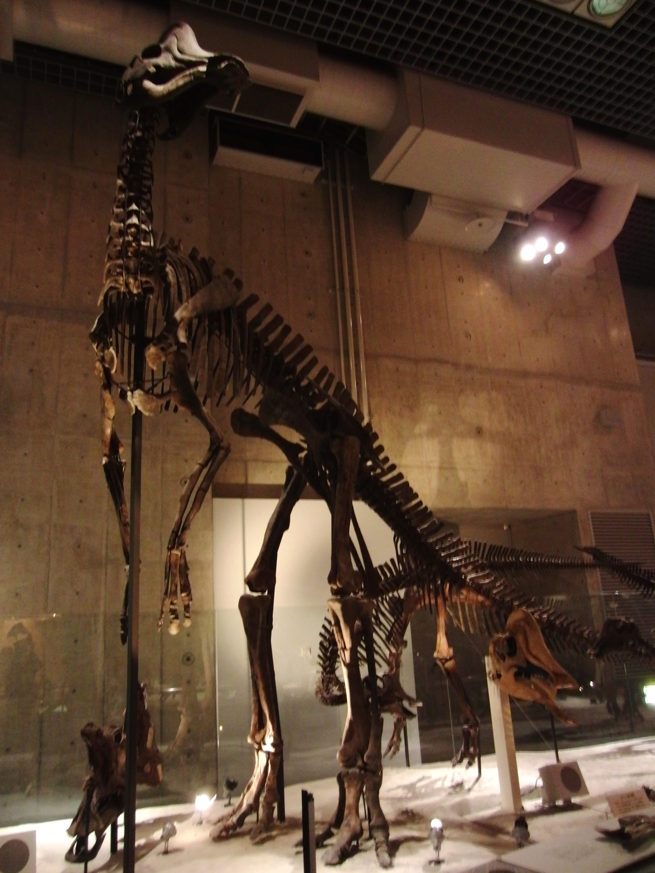 Skelton of Hypacrosaurus(Hypacrosaurus sp.). Exhibit in the National Museum of Nature and Science, Tokyo, Japan.